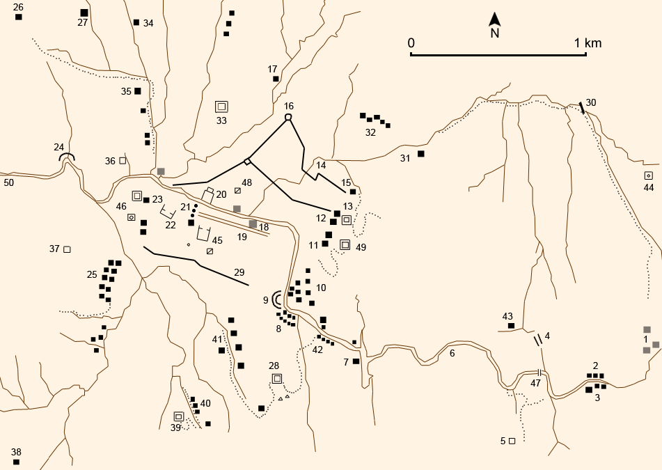 Petra